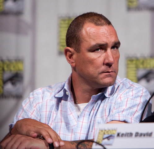 The Cape Panel - Vinnie Jones (left) and Keith David